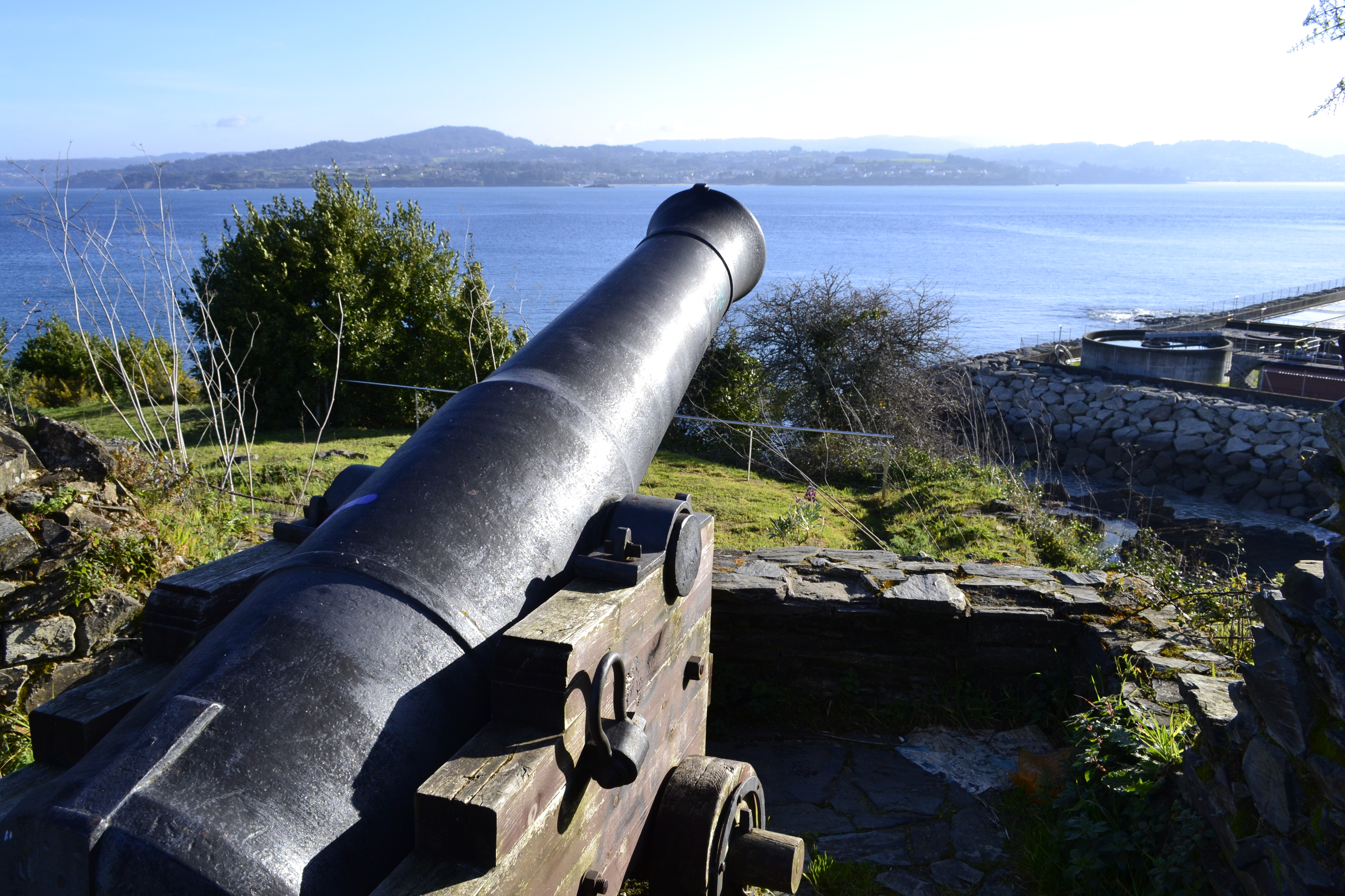 View of the castle of Fontán, in Sada (A Coruña).